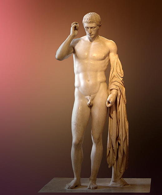 Marcellus, formerly known as “Germanicus”, of the Hermes Ludovisi type. Greek marble, Roman artwork of the 1st century CE, after a 5th century BC prototype with substitution of a Roman portrait head.